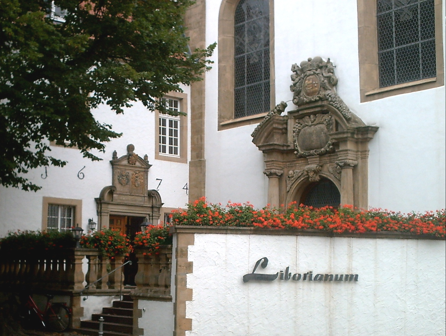 Collegium Liborianum in Paderborn, Germany